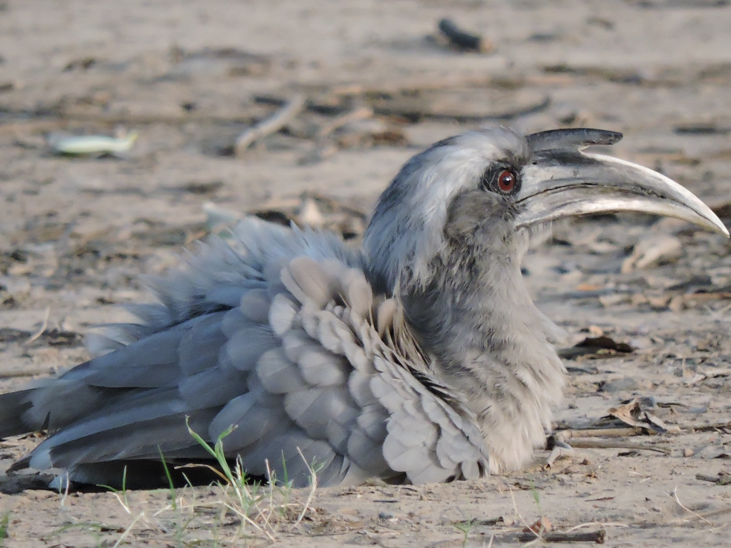 Indian grey hornbill , leisure park , Chandigarh, India